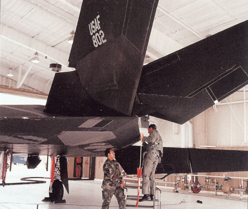 Ground Maintenance on the F-117A Nighthawk being performed by the 4450th Maintenance Squadron (T-Unit), inside a hangar at Tonopah Test Range Airport, Nevada